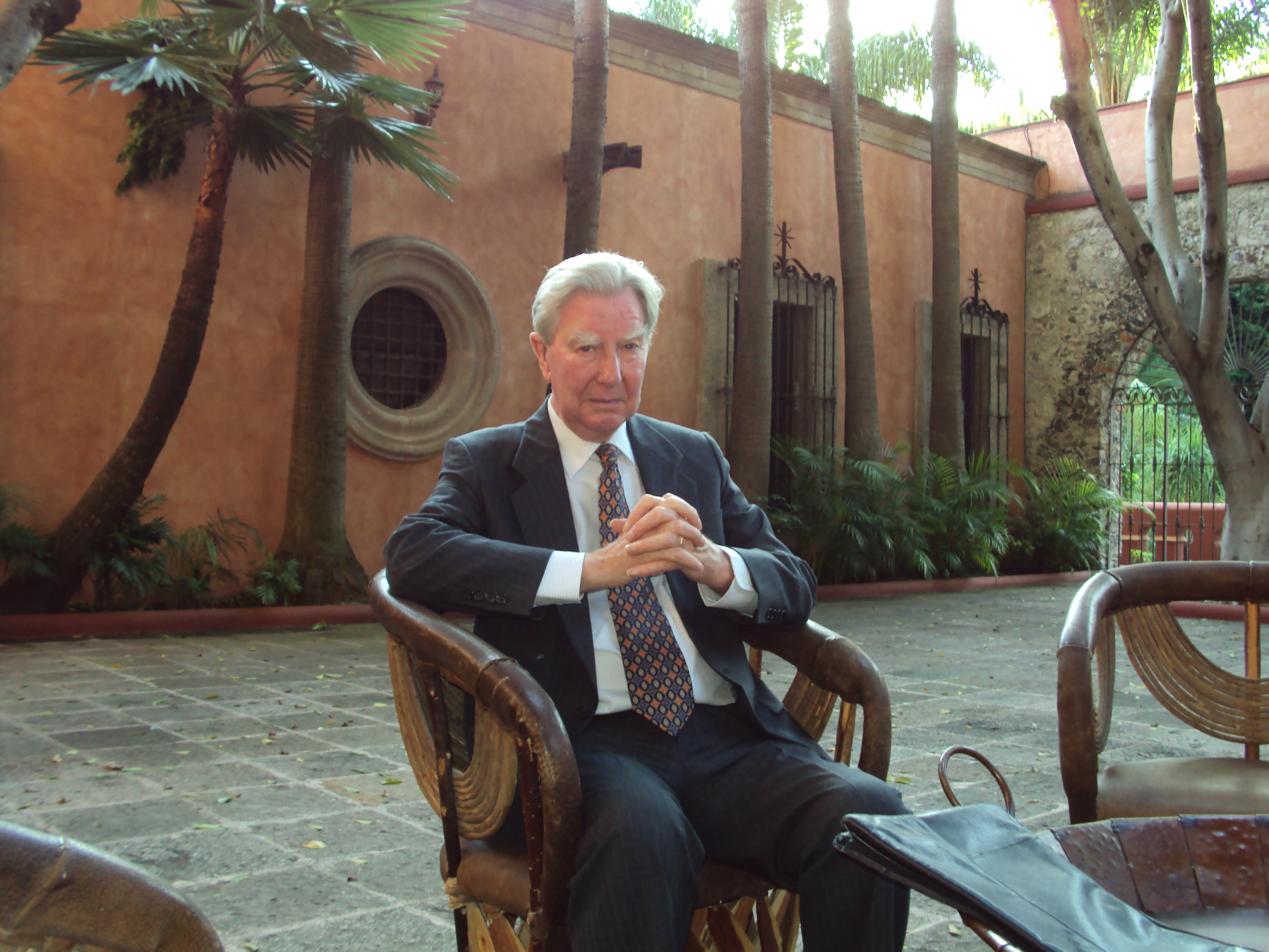 Professor David Brading in the courtyard of Condumex, Mexico